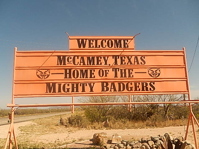 I took photo with Canon camera of McCamey city sign.